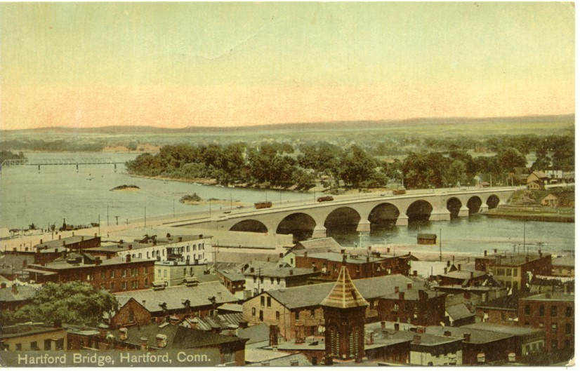 Postcard: "Hartford Bridge" now known as the Bulkeley Bridge in Hartford, postcard circa 1906-1916 Description: "Early postcard (1906 to 1916) postally unused" Source: eBay store Web page